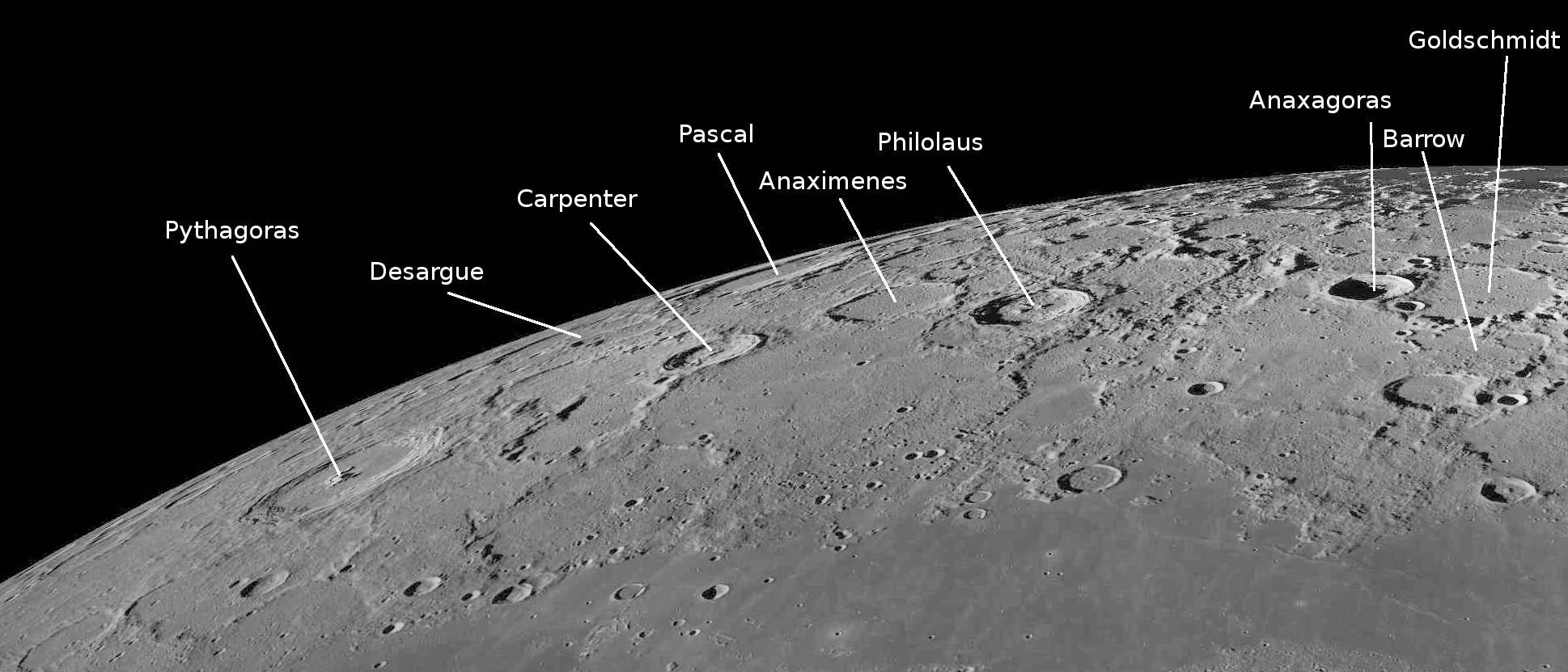 North west limb of moon with craters. Image data from LROC-WAC. Orthographic projection.